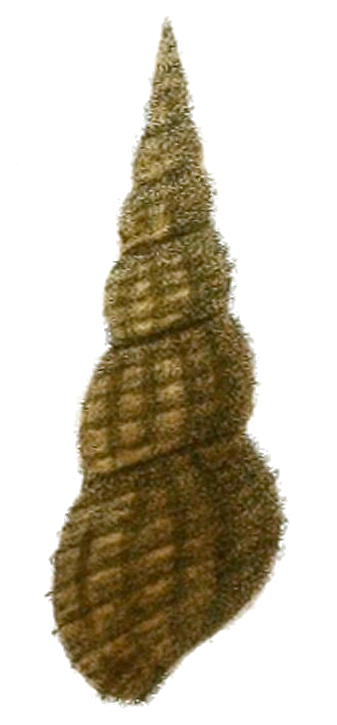 Drawing of an abapertural view of a shell of Tylomelania perfecta.